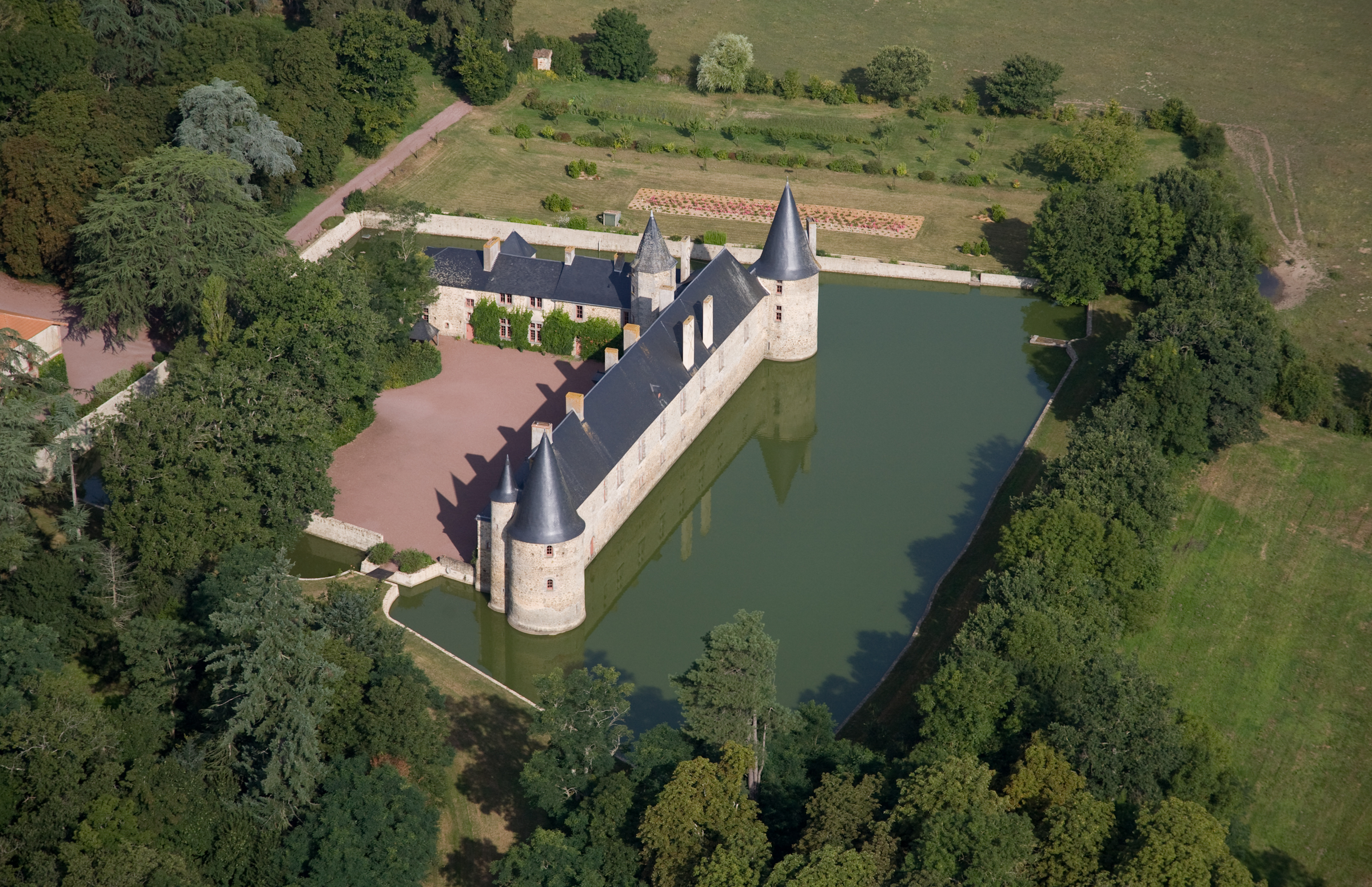 Maisontiers castle, France